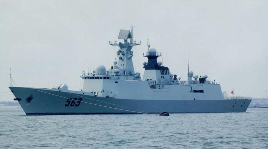 CSR Report RL33153 China Naval Modernization: Implications for U.S. Navy Capabilities—Background and Issues for Congress by Ronald O'Rourke dated February 28, 2014. Page 25 - Figure 8. Jiangkai II (Type 054A) Class Frigate Source: Photograph provided to CRS by Navy Office of Legislative Affairs, December 2010.